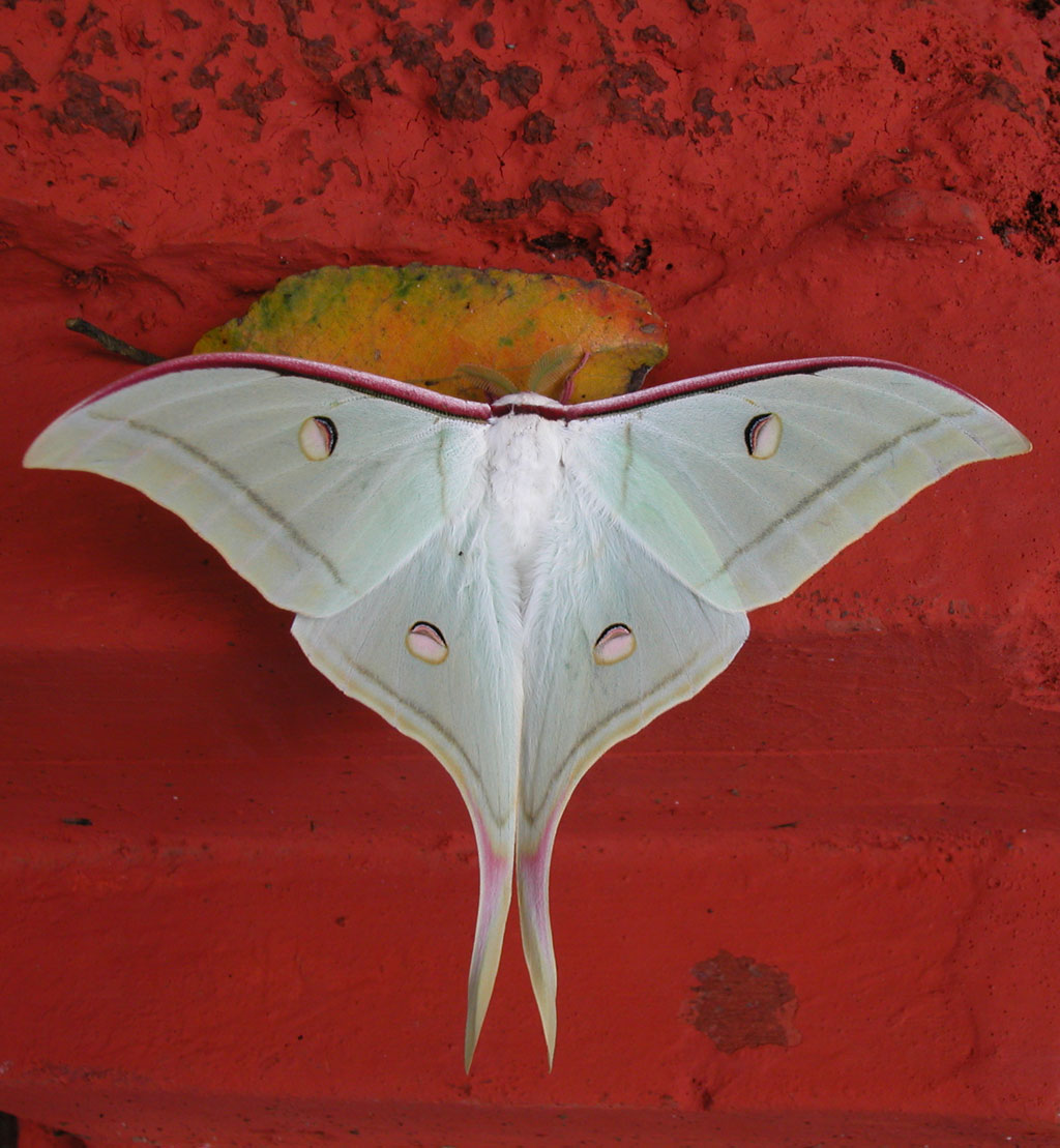 Photograph clicked in Mahabaleshwar, Pune, Maharashtra,India. Luna Moth (Actias luna)